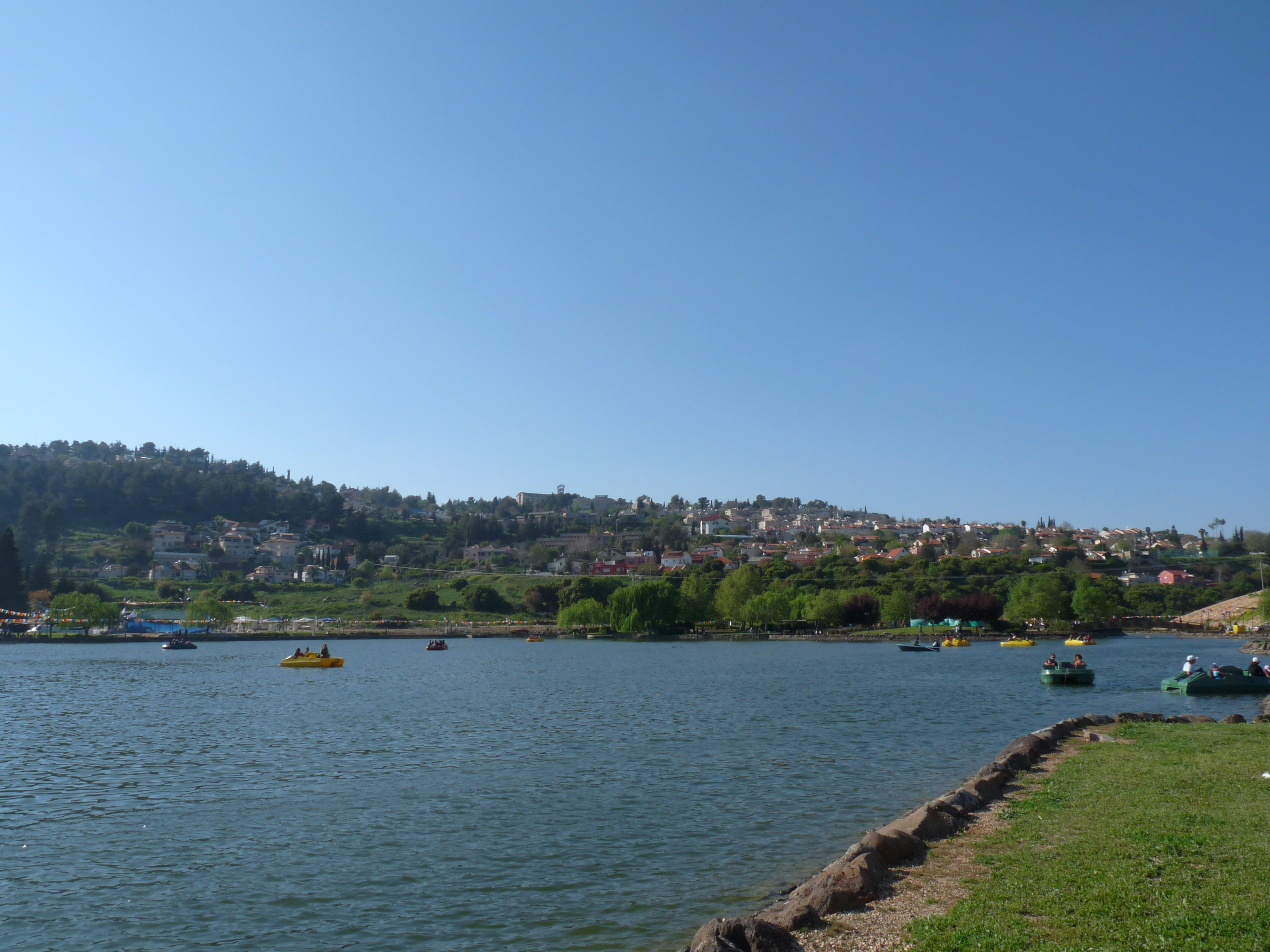 A view on the town of Maalot from the maalot lake